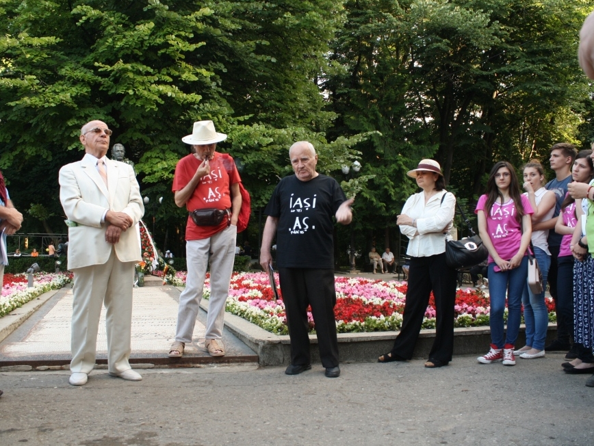 Eminescu's Linden Tree - Third Treatment - Leucov, Antonesei, Lupu